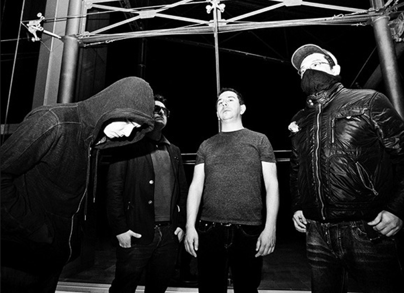 (Izq.) Roger Ycaza, Alvaro Ruiz, Francisco Charvet, Edgar Castellanos.